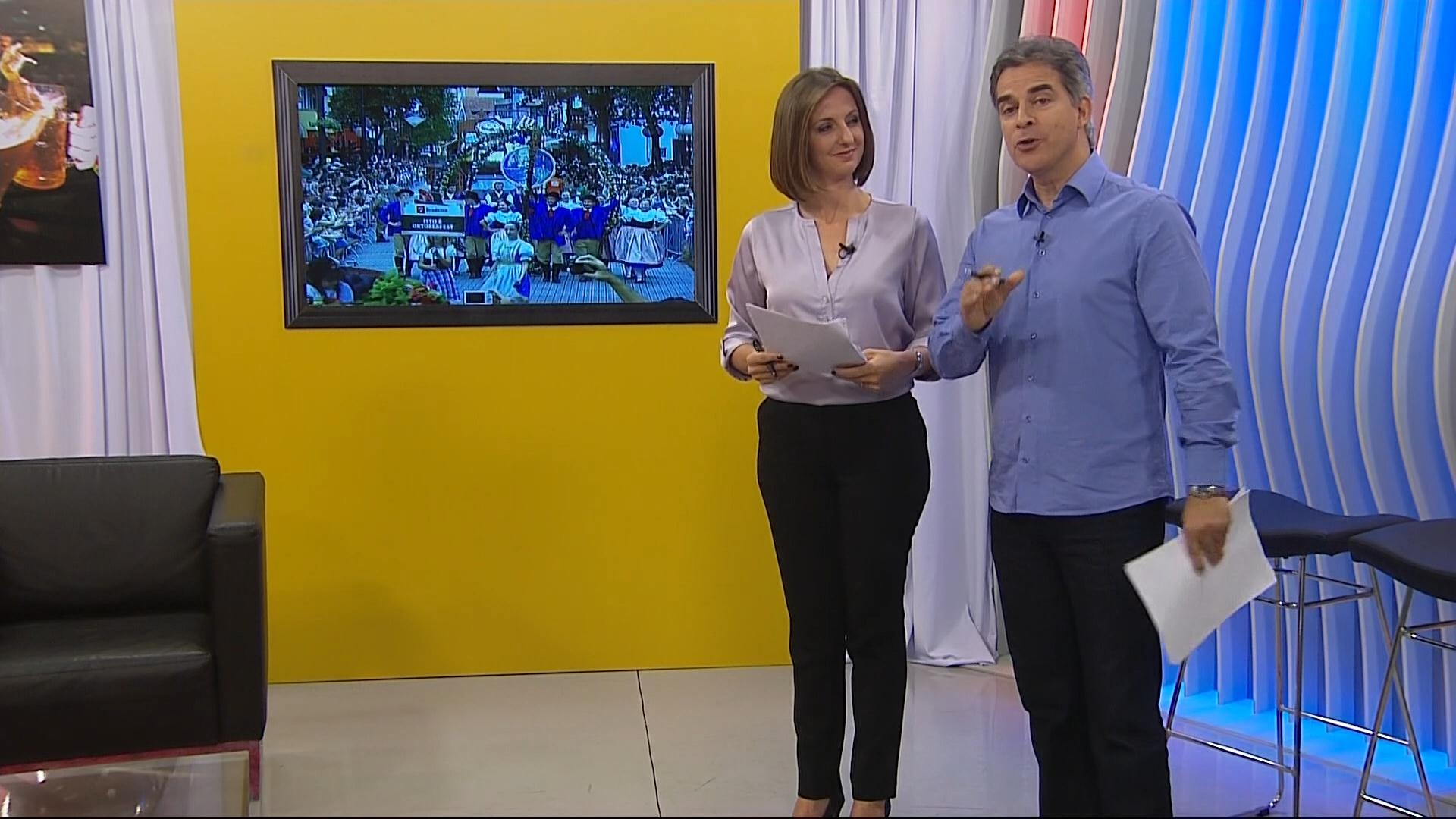 Transmissão RBS Bnu Oktoberfest